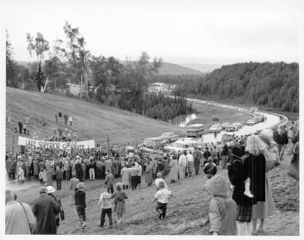 The official dedication ceremony for the Trans-Canada Highway also marked the opening of "the gap" between Sault Ste. Marie and Nipigon. It was held near Wawa on September 17, 1960. (source: Shragge, From Footpaths to Freeways (1982) p. 86)